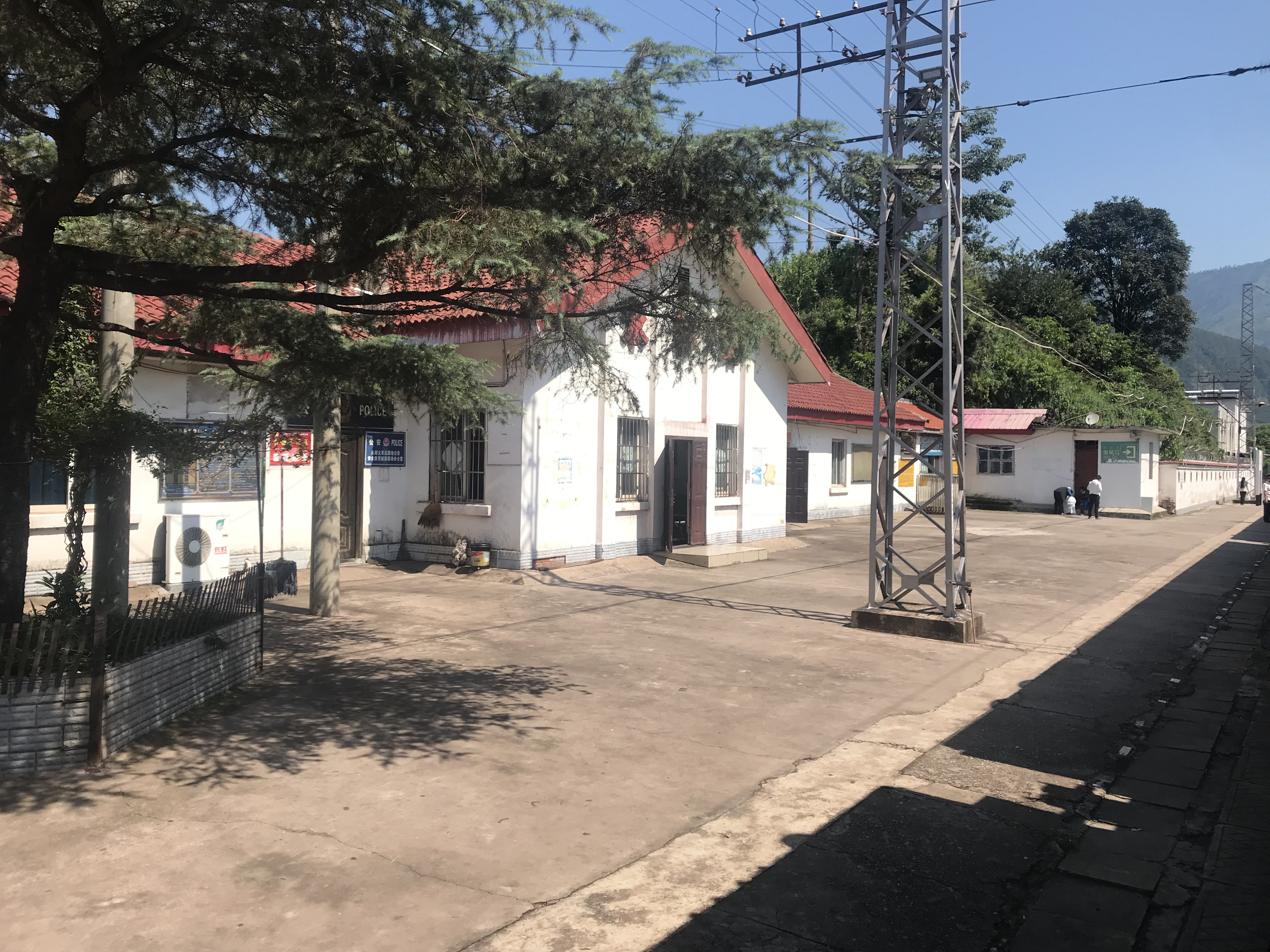 201908 Station Building of Yonglang (1)